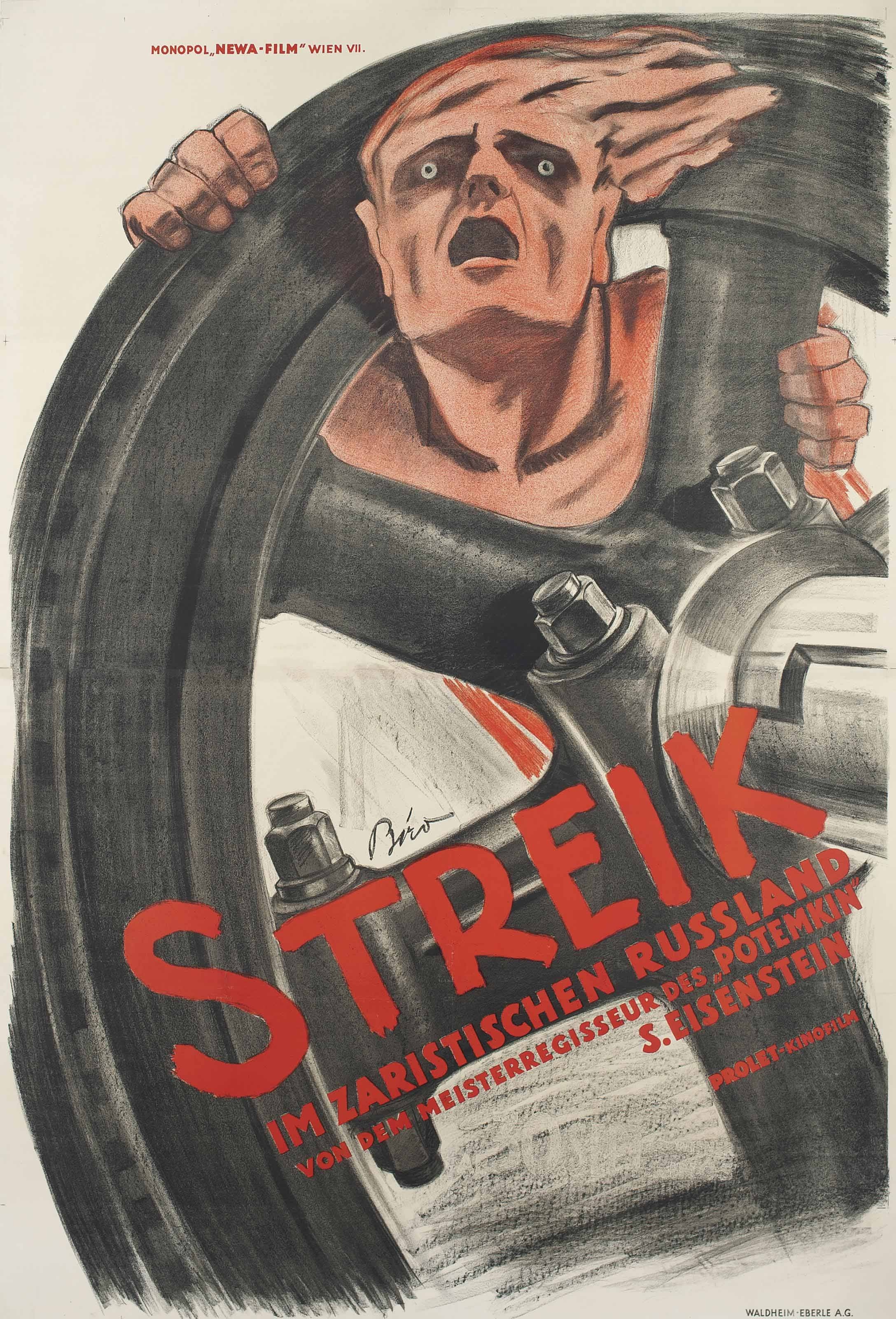 S. Eisensteins Streik. Filmplakat von Mihály Bíró